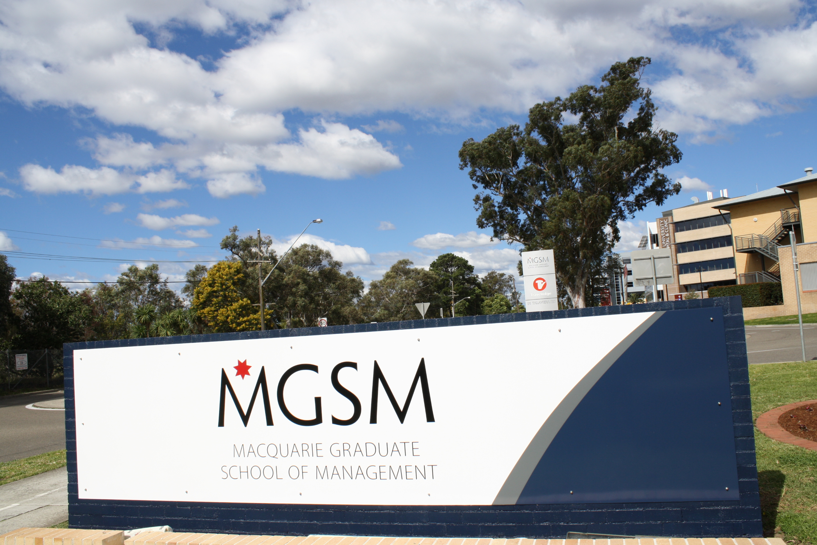 MGSM Entrance